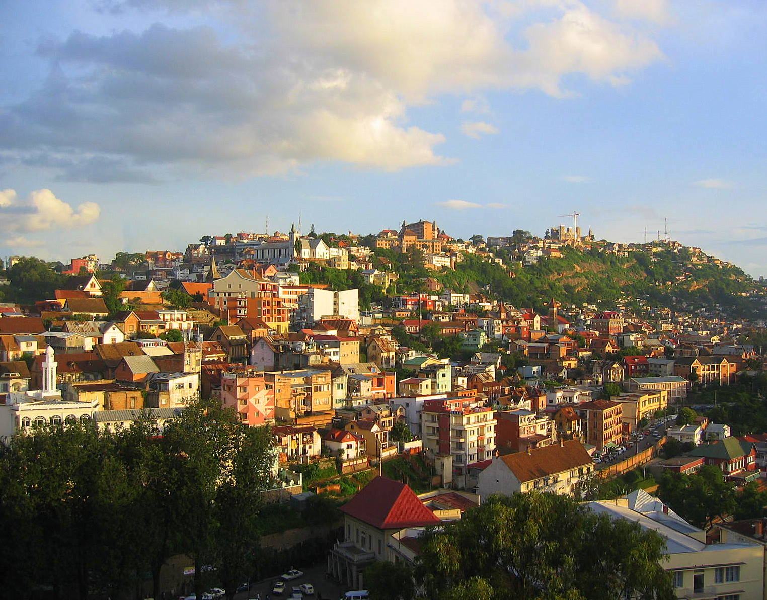 Antananarivo, Madagascar